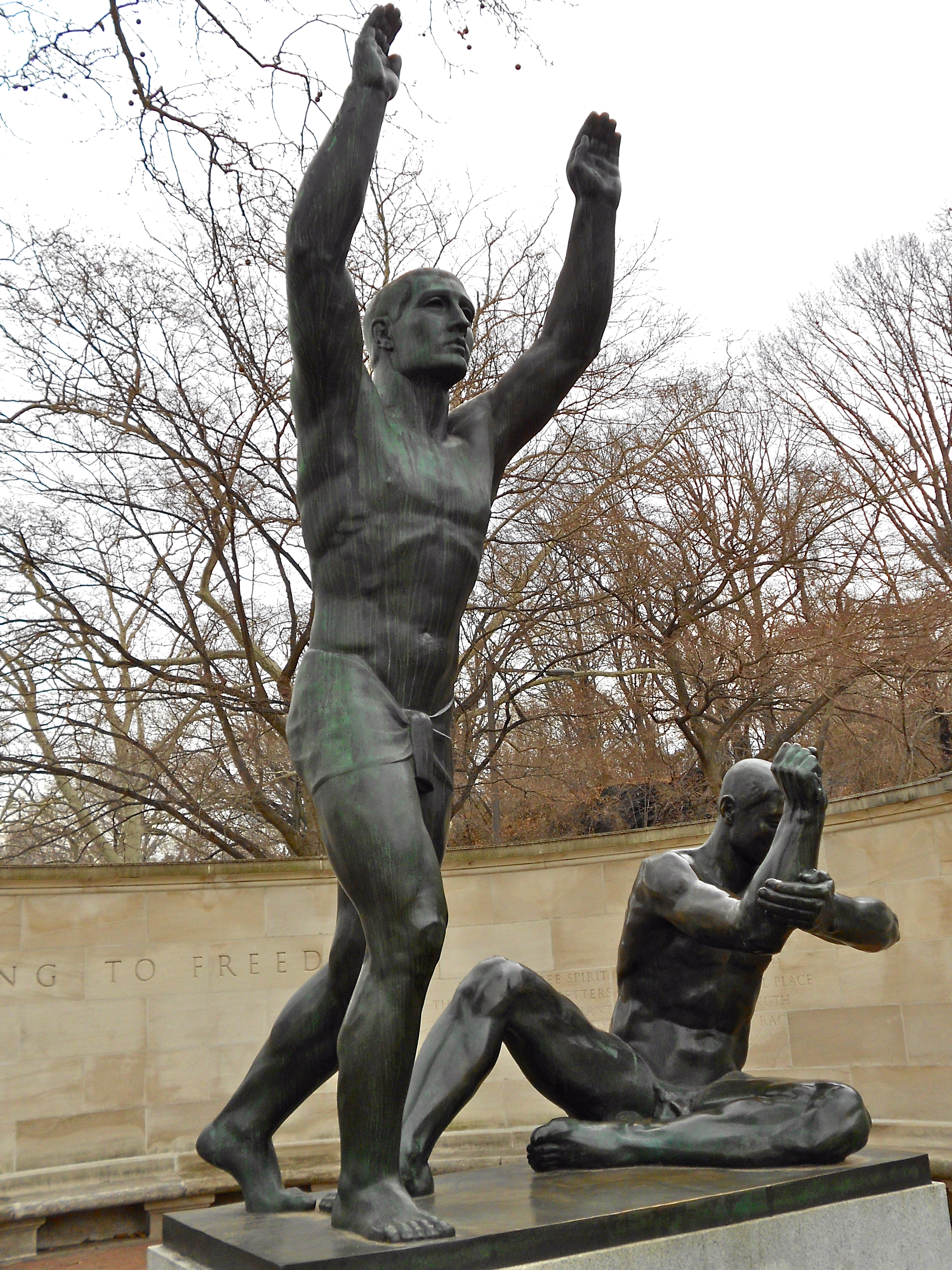 "Welcoming to Freedom" in Samuel Memorial, Philadelphia. "Ellen Phillips Samuel Memorial: Welcoming to Freedom" sculptor Maurice Sterne, 1939. Bronze sculpture, granite base. SIRIS reference IAS PA001132. Frankly, I don't like this sculpture and I don't understand the rude gesture the seated guy is making. No visible copyright notice.